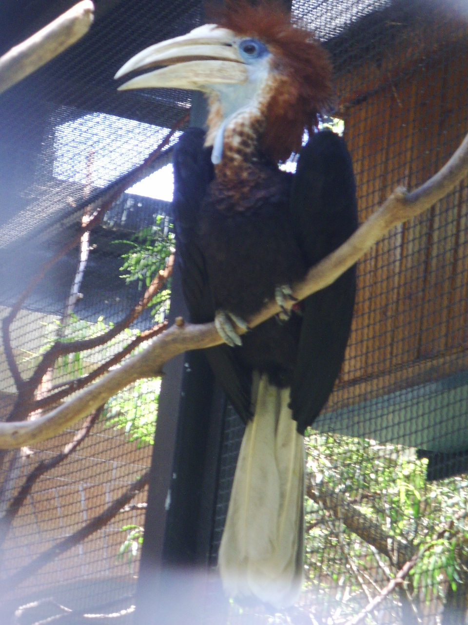 Yellow-casqued Hornbill